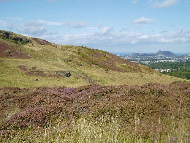 Bonaly Country Park. Heather in full bloom in Bonaly Park. Beyond Torduff Hill lies the City of Edinburgh. Arthur's Seat is the hill in the background.